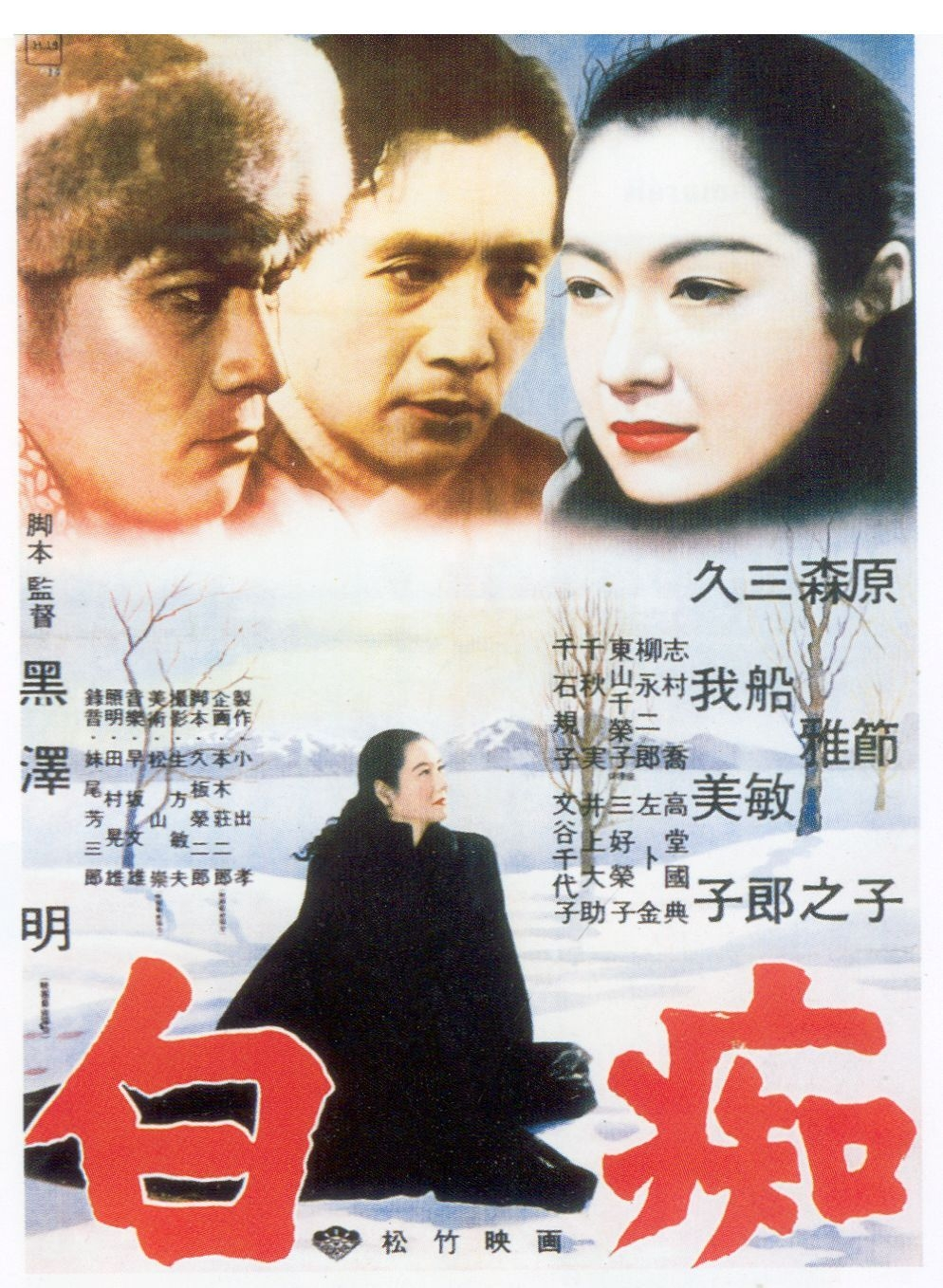 Movie poster for 1951 Japanese movie The Idiot (白痴, Hakuchi) showing Toshirō Mifune (left), Masayuki Mori (center) and Setsuko Hara (right).